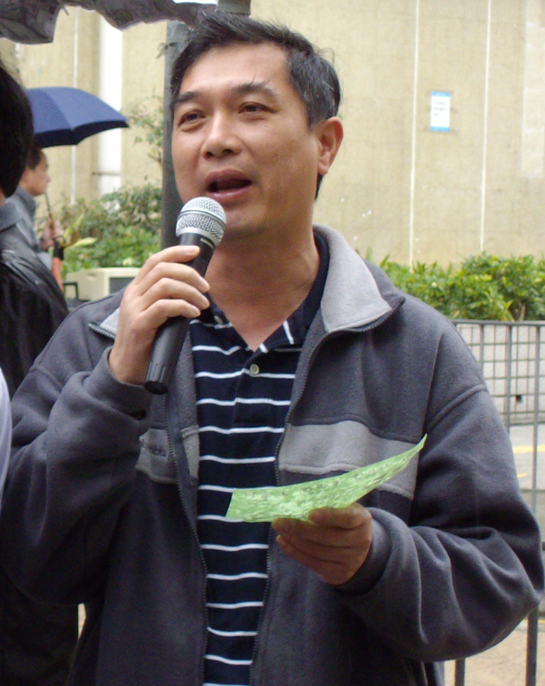 This photo is taken by User:Itsmine, with camera model :PENTAX Optio E30, and double licensed as cc-by-sa-3.0/2.5/2.0/1.0 or GFDL. It has been modified by Gimp, thus the metadata information is lost.